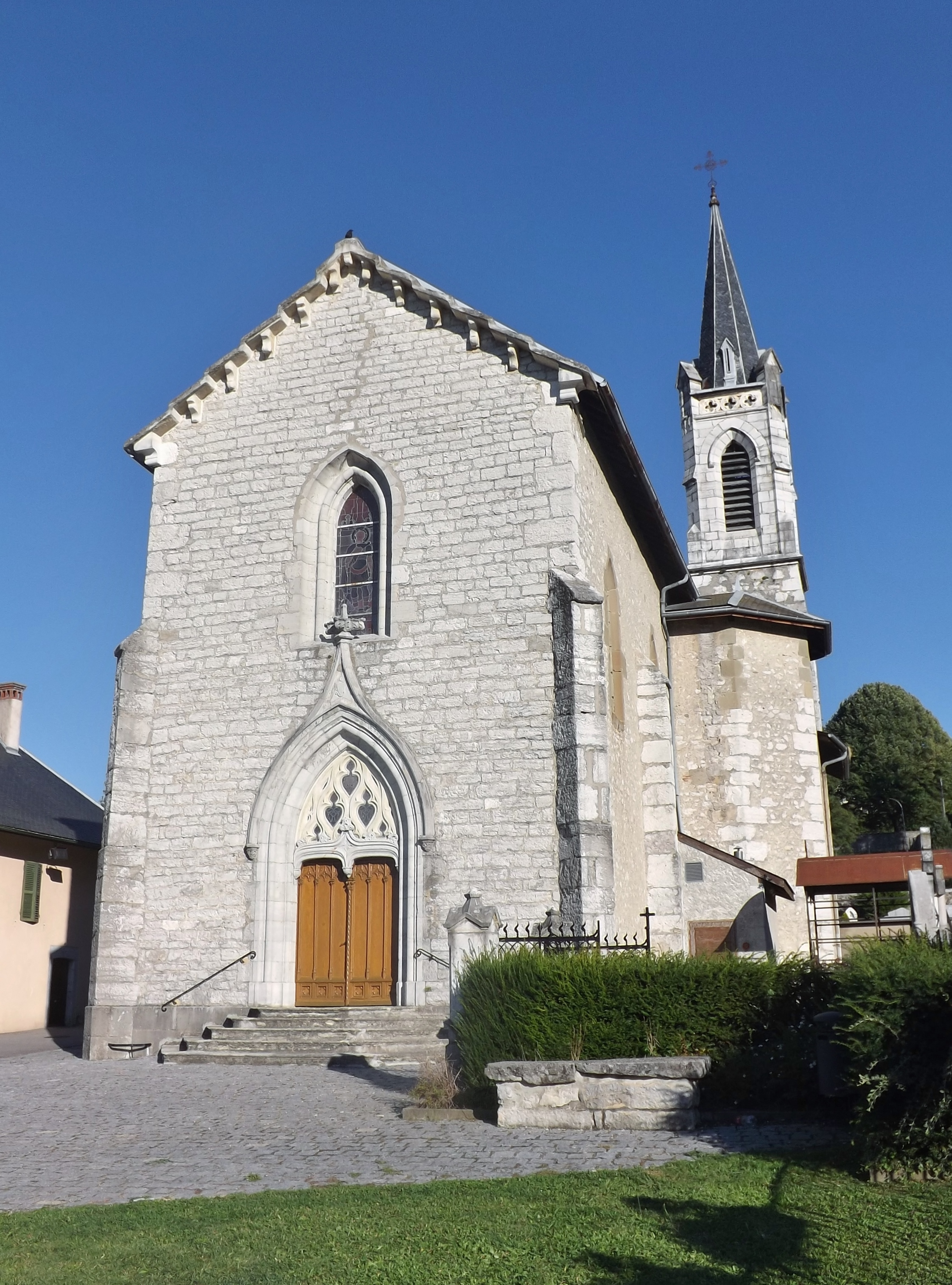 Sight of the église paroissiale Saint-Maurice church (1850), in Jacob-Bellecombette near Chambéry in Savoie, France.